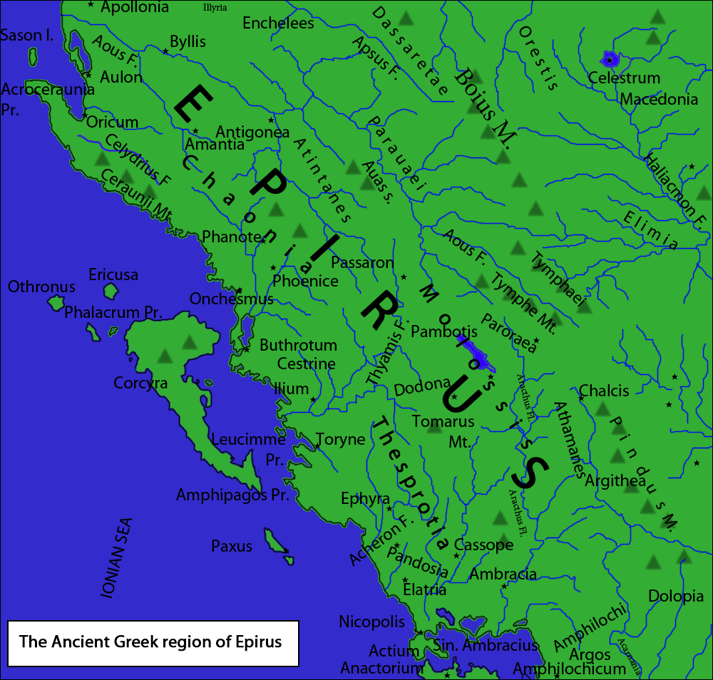 The Ancient Greek region of Epirus, the locations are based on Heinrich Kiepert's map cited below.